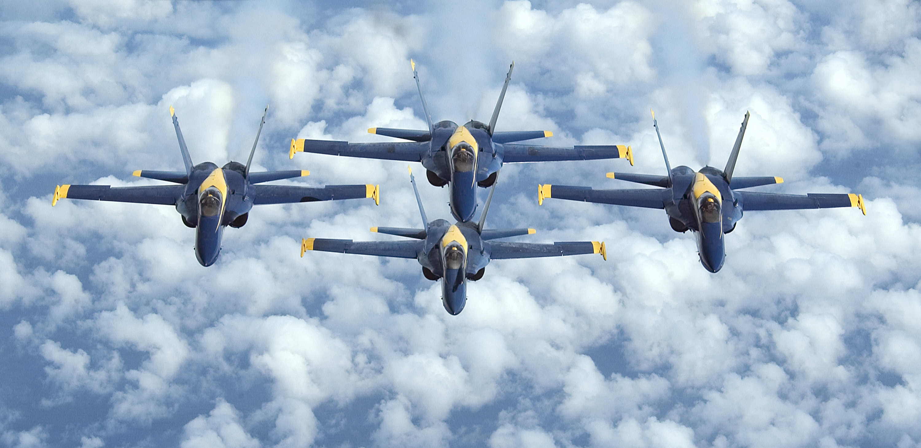 Boeing F/A-18 Hornet, diamond formation